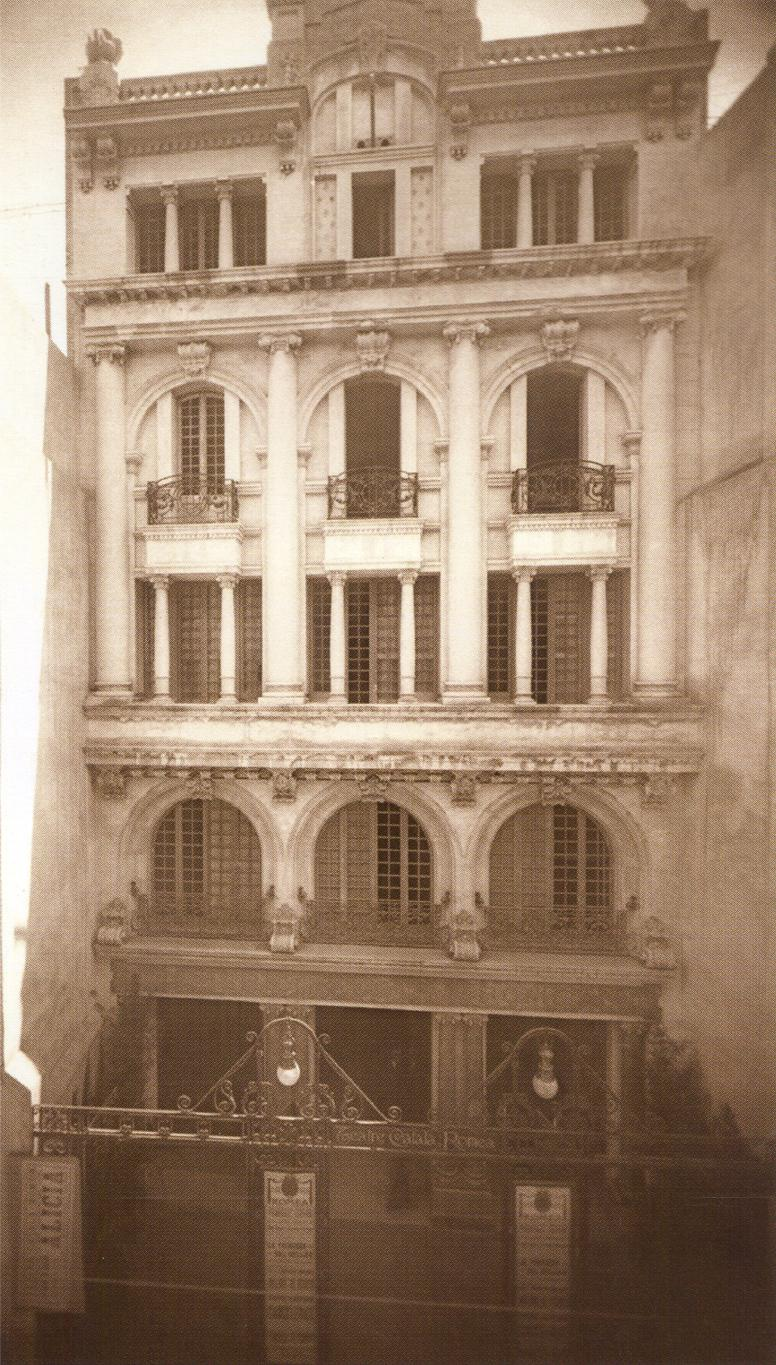 Theater Romea, in Barcelona, ca. 1914